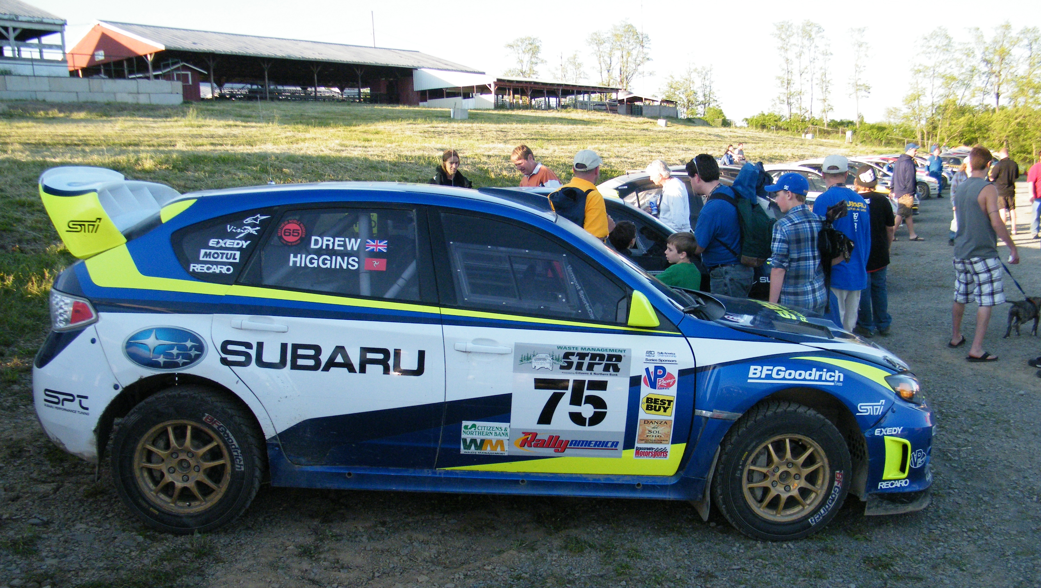 The 2011 Subaru Impreza WRX STi of David Higgins at the service area of the 2011 Susquehannock Trail Performance Rally in Pennsylvania. Round 5 of the 2011 Rally America National Championship.